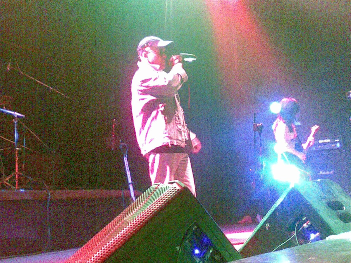 Krasnaya Plesen live in Orlandina Club, Saint Petersburg, April 28, 2012. On the photo left to right: Pavel Yatsyna and Nika Morozova Kirundi: Красная плесень в клубе «Орландина», Санкт-Петербург, 28 апреля 2012 года. На фото слева направо: Павел Яцына и Ника Морозова.